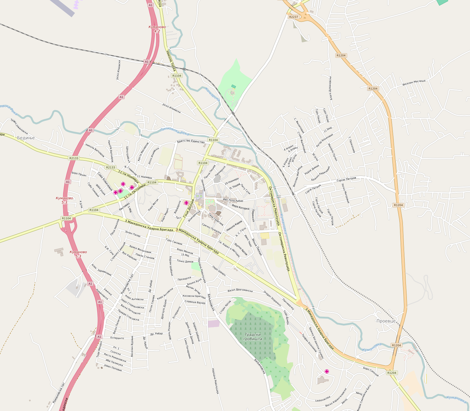 OpenStreetMap - Map of Kumanovo